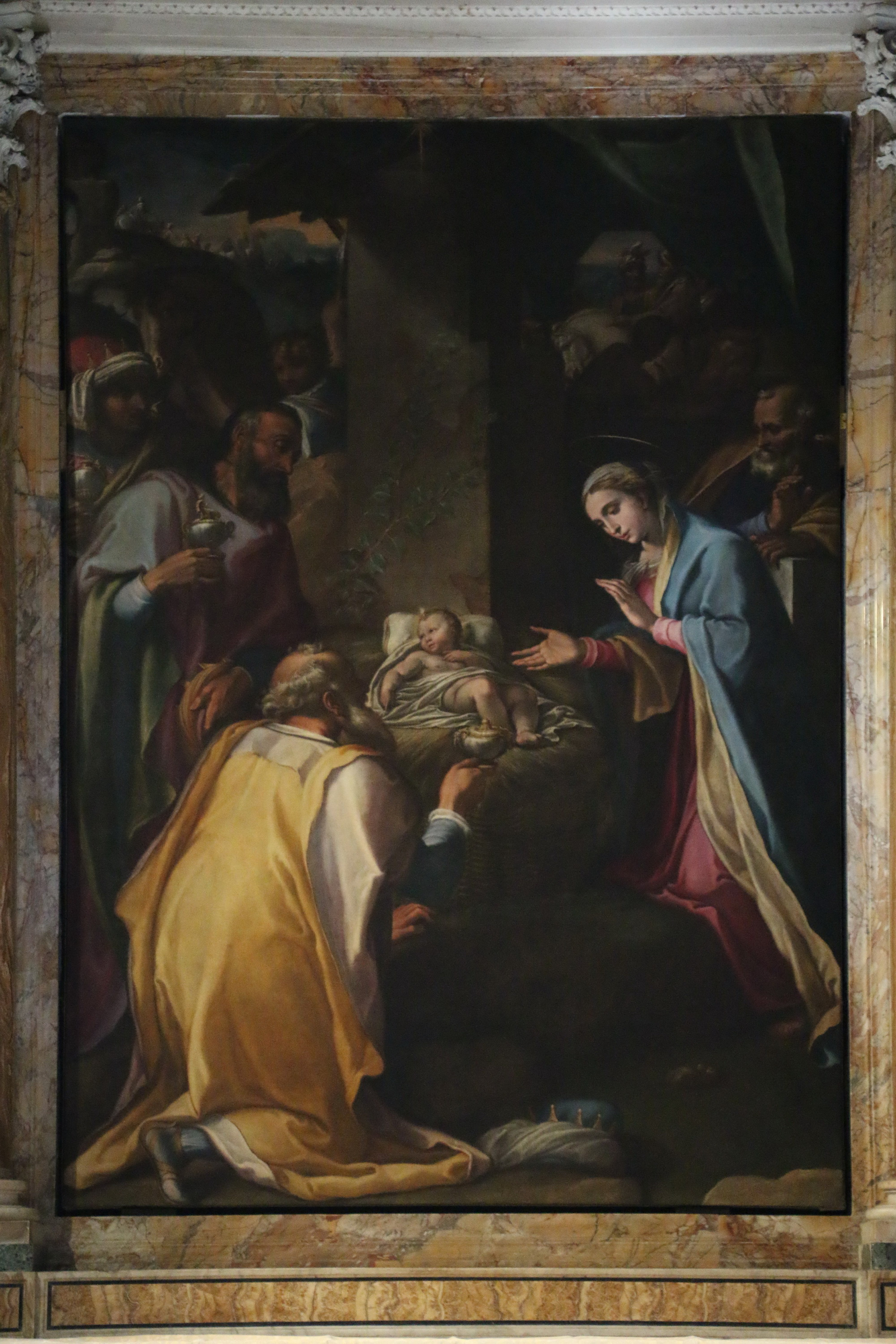 Cappella dei Adorazione dei Magi - Cesare Nebbia -- Chiesa di Santa Maria in Vallicella, Rome, Lazio, Italy Santa Maria in Vallicella Native nameChiesa di Santa Maria in VallicellaLocationRome, Lazio, ItalyCoordinates41° 53′ 54″ N, 12° 28′ 09″ E Authority control GND: 4459147-0